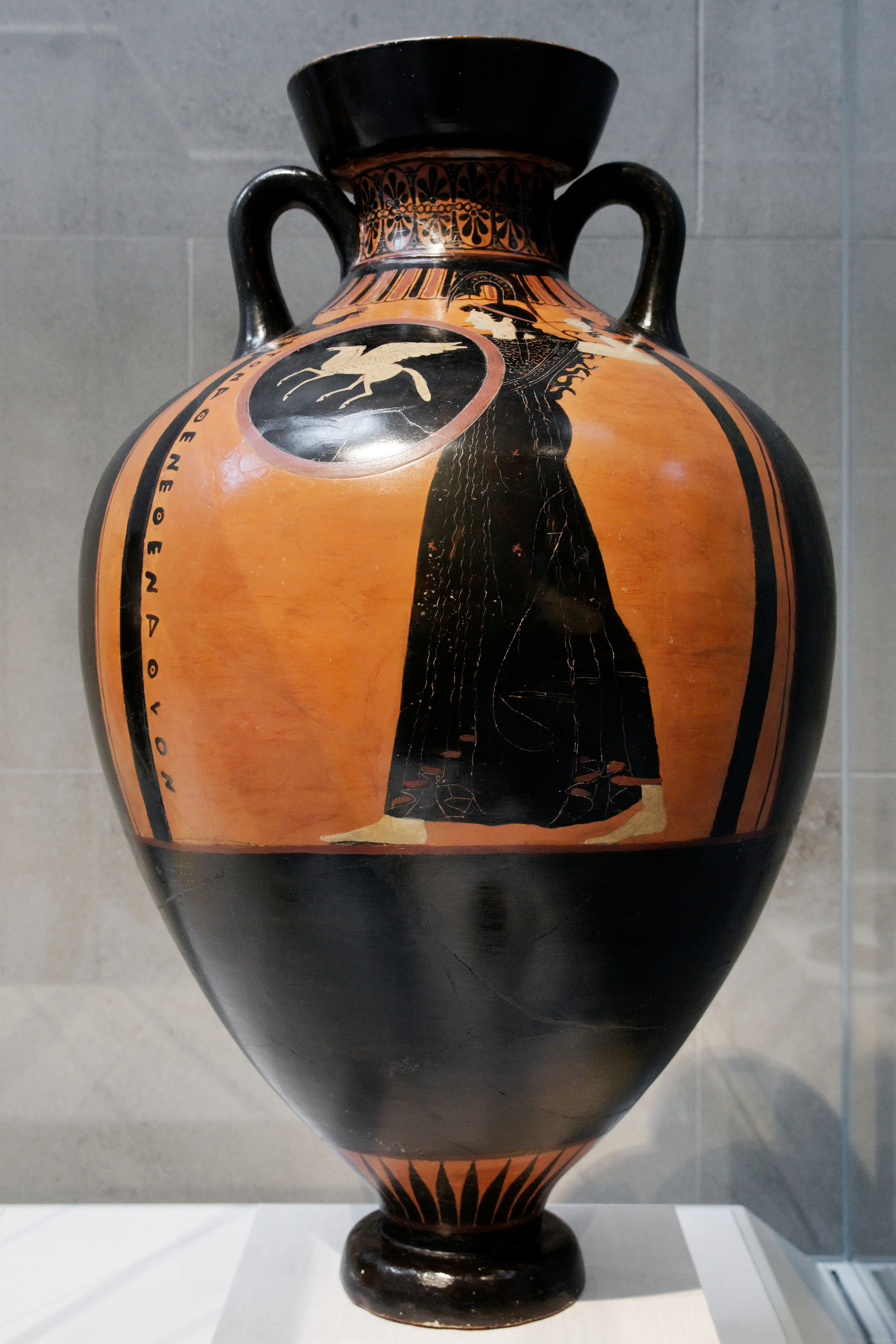 Athena. Side B of a black-figure Panathenaic prize amphora.